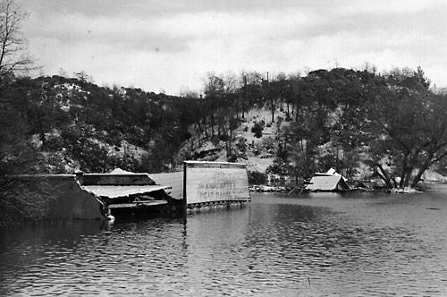 Downtown Kennett, California. Notice the “Meat Market” sign in the center building.